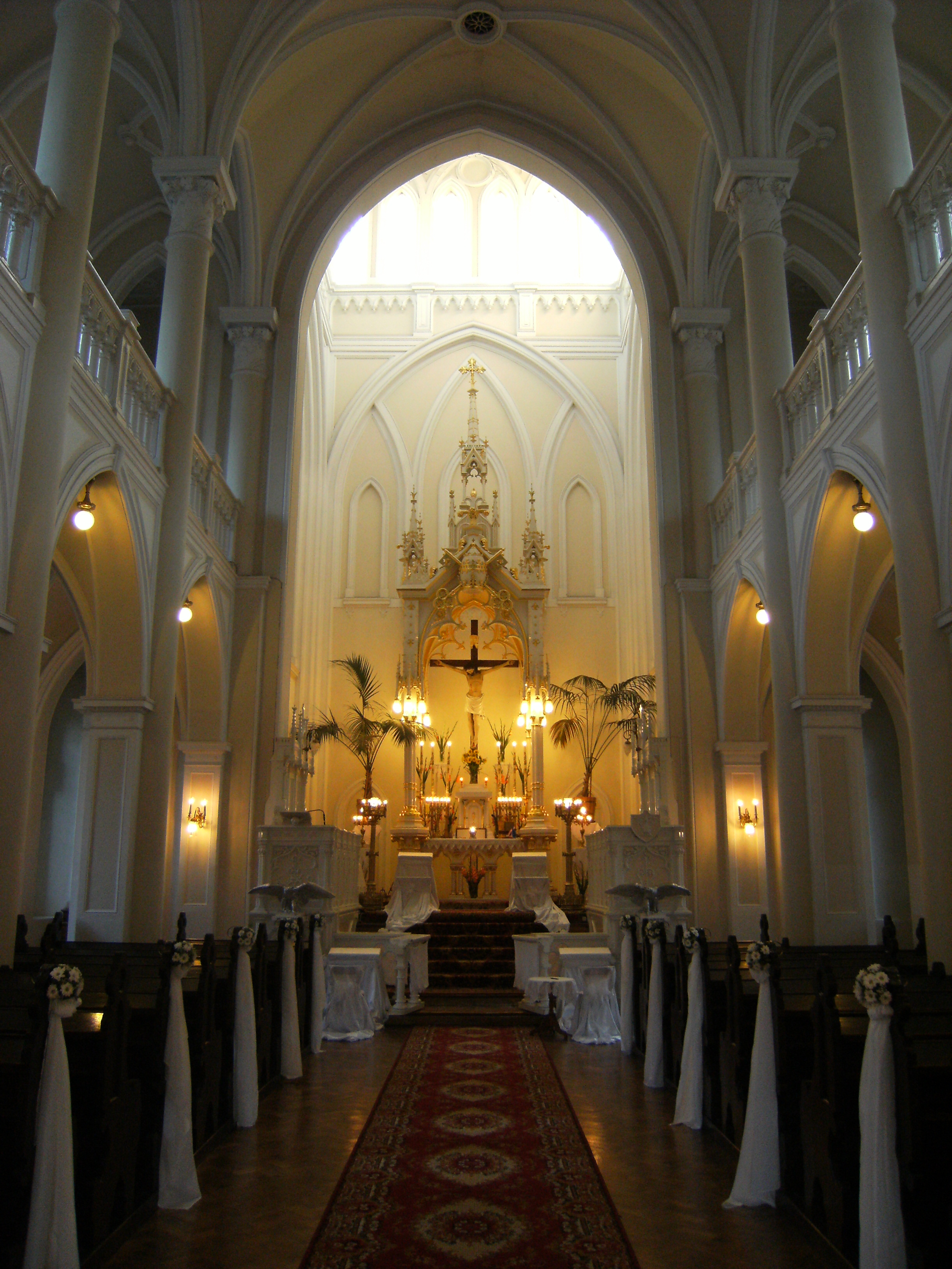 Inside of Temple of Mercy and Charity